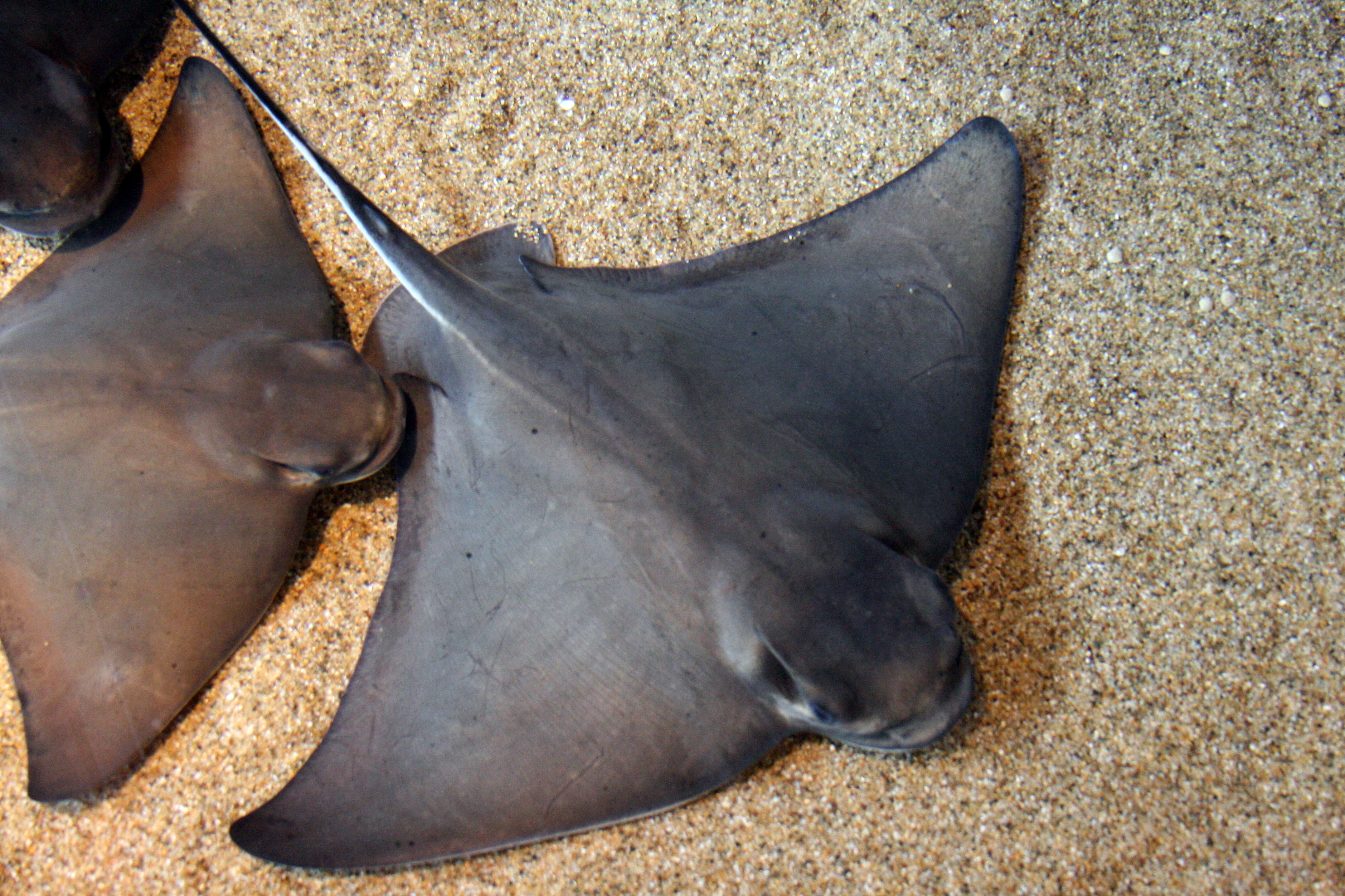 Bat rays(Myliobatis californica) at the Monterey Bay Aquarium